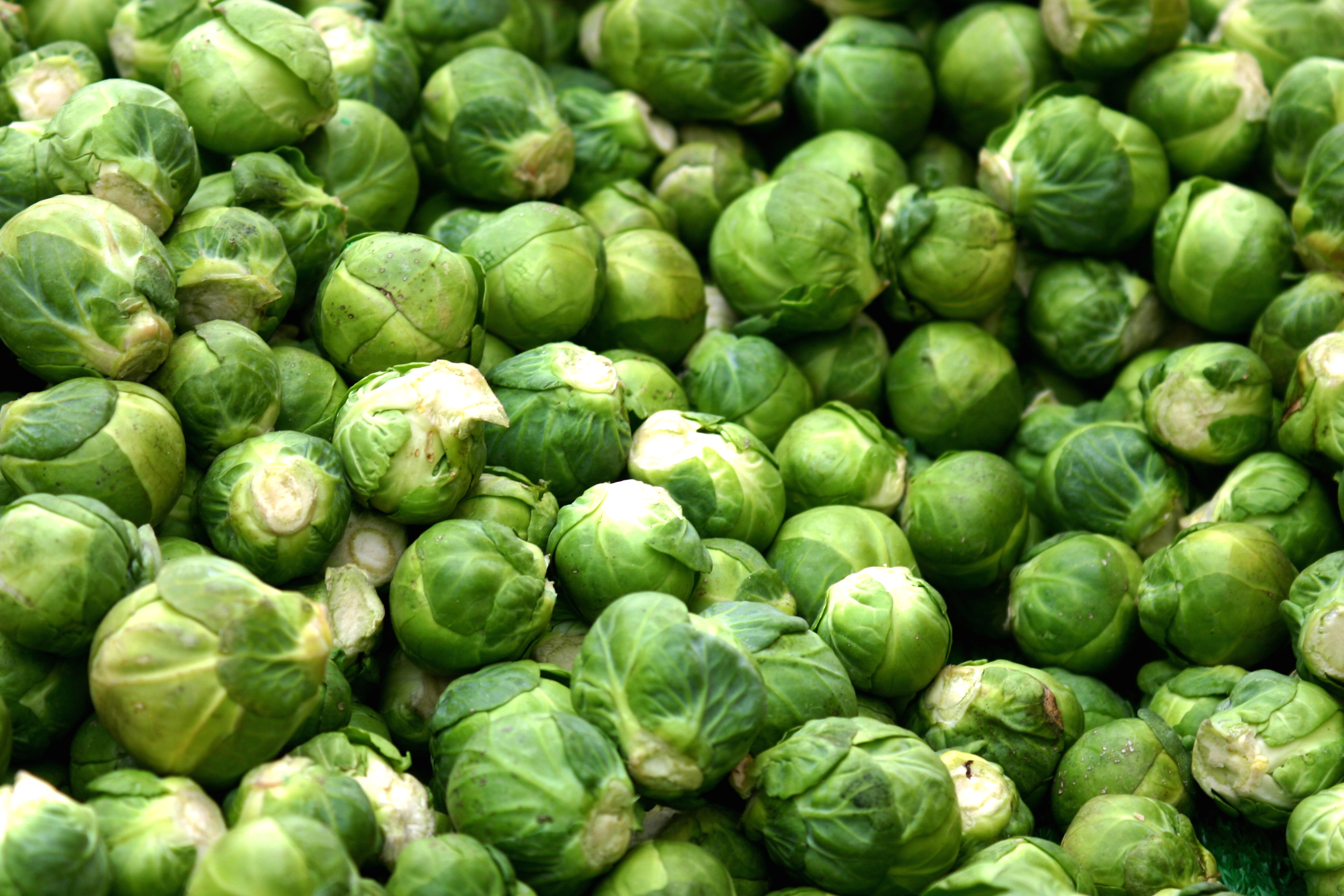 Brussels sprouts